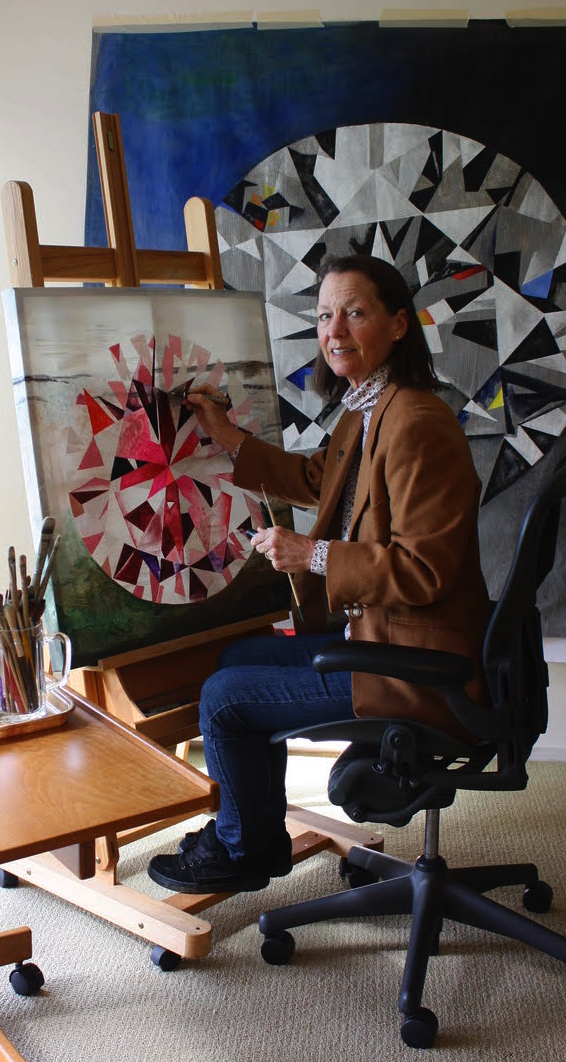 Susan Harper paints gemstones on reclaimed materials in her painting studio.